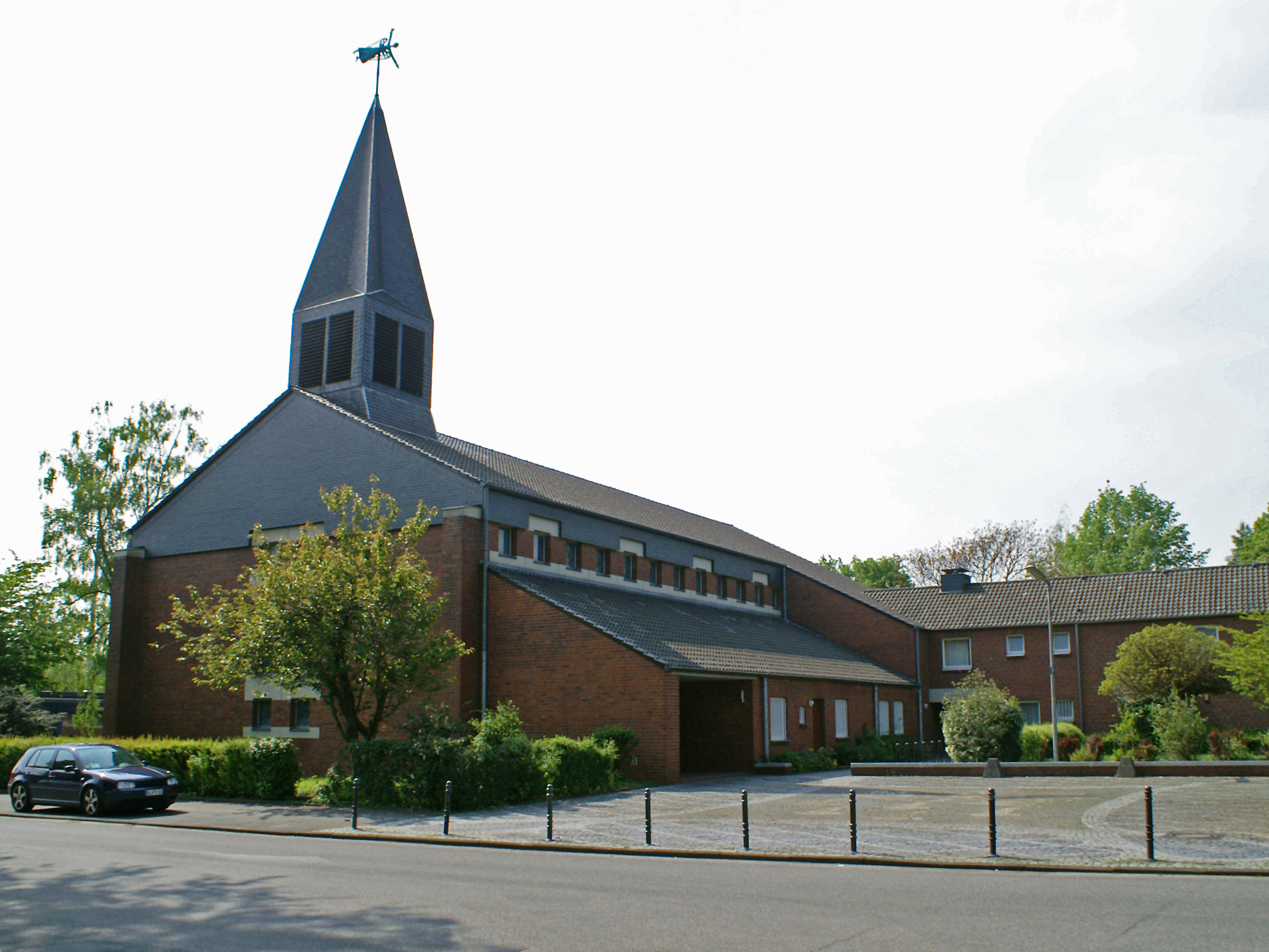 Catholic Church "Zu den heiligen Engeln" in Cologne-Ostheim